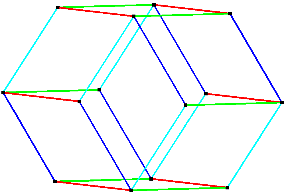 Bilinski dodecahedron with parallel edges colored the same